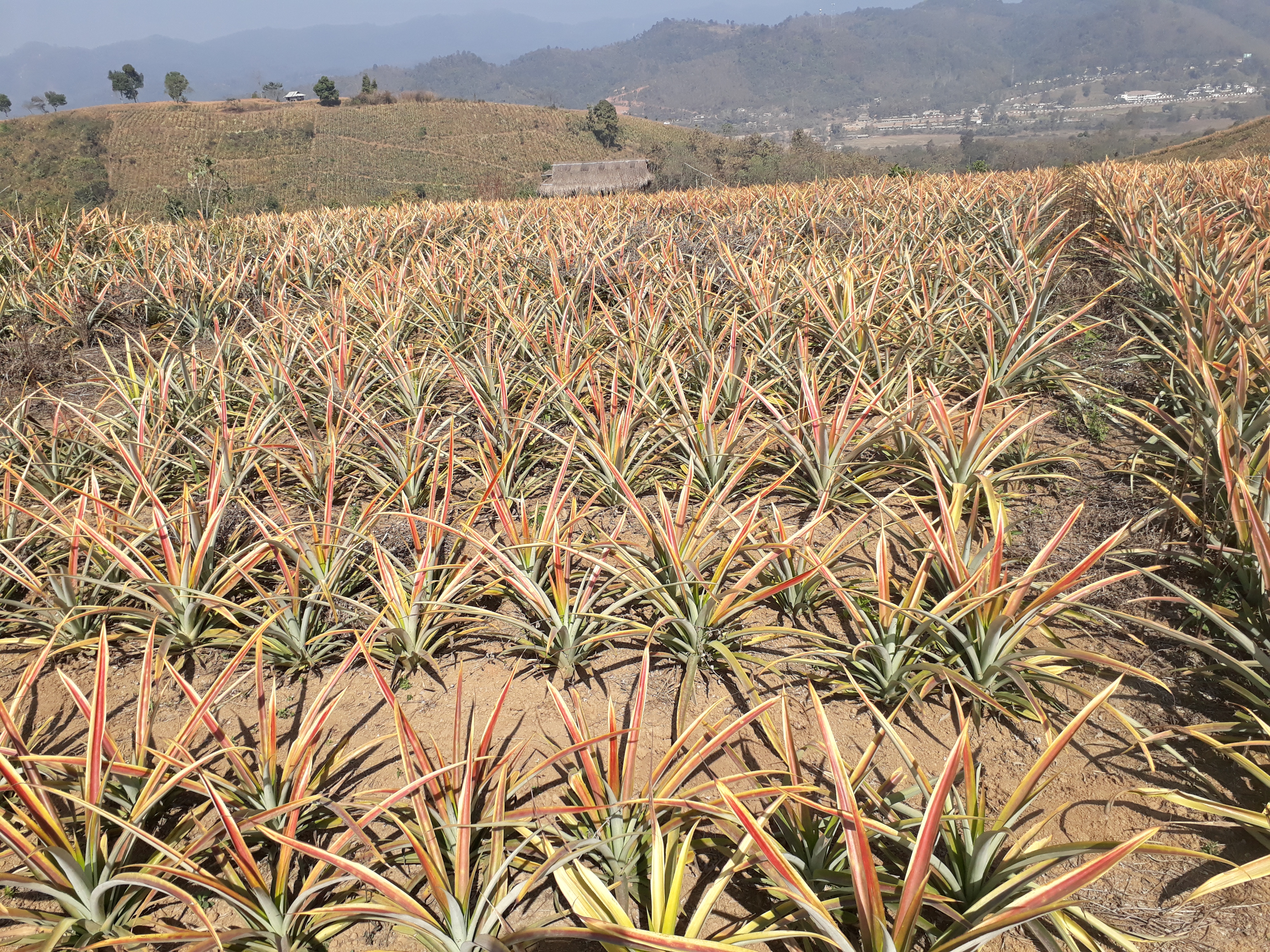 Pineapple field in MOVCD-NER FPO in Dimapur district of Nagaland